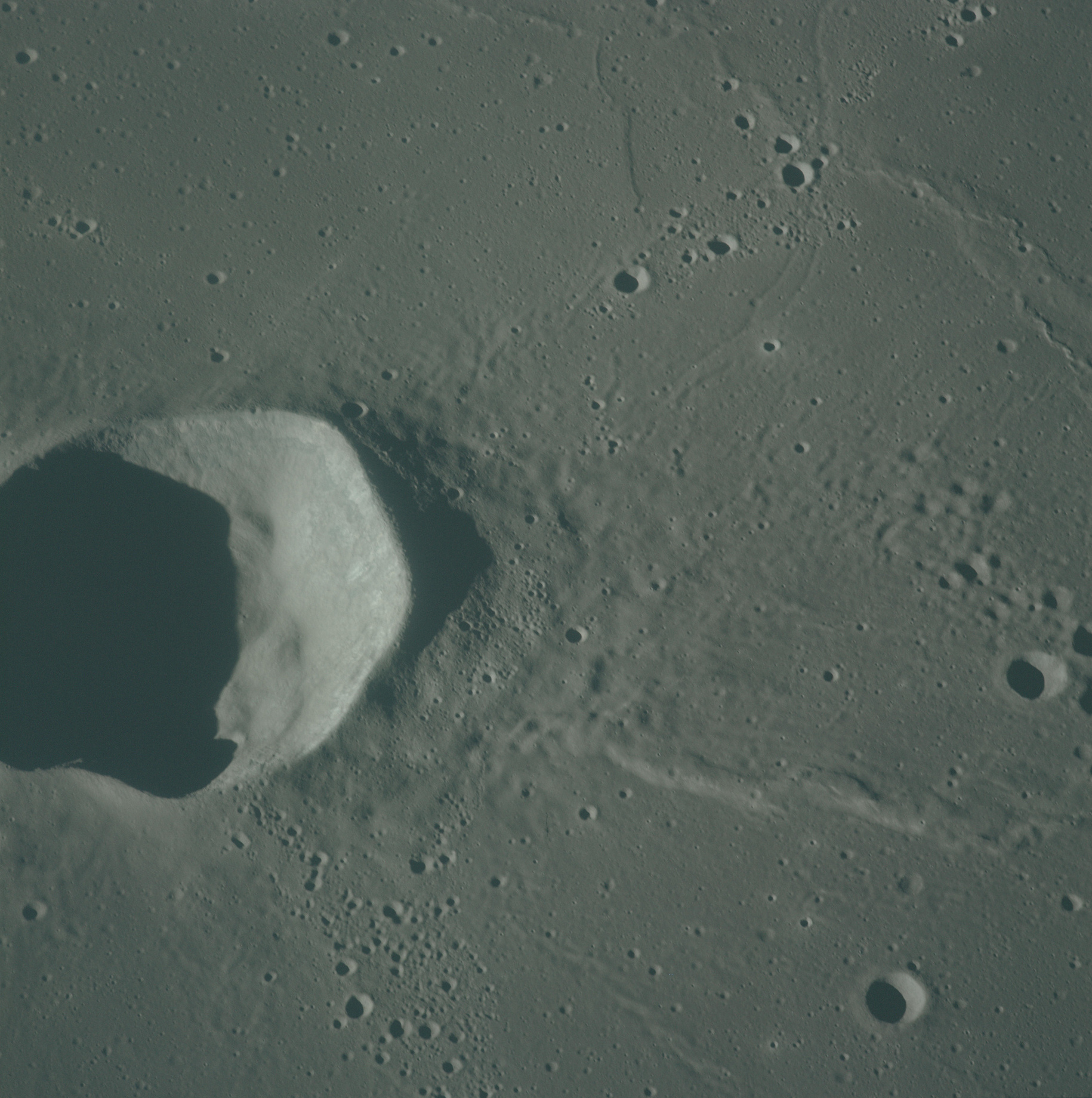 Oblique view of Herigonius crater, on the moon.